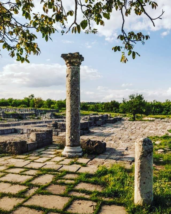 A column remaining from the Throne Hall at Preslav, Northeastern Bulgaria